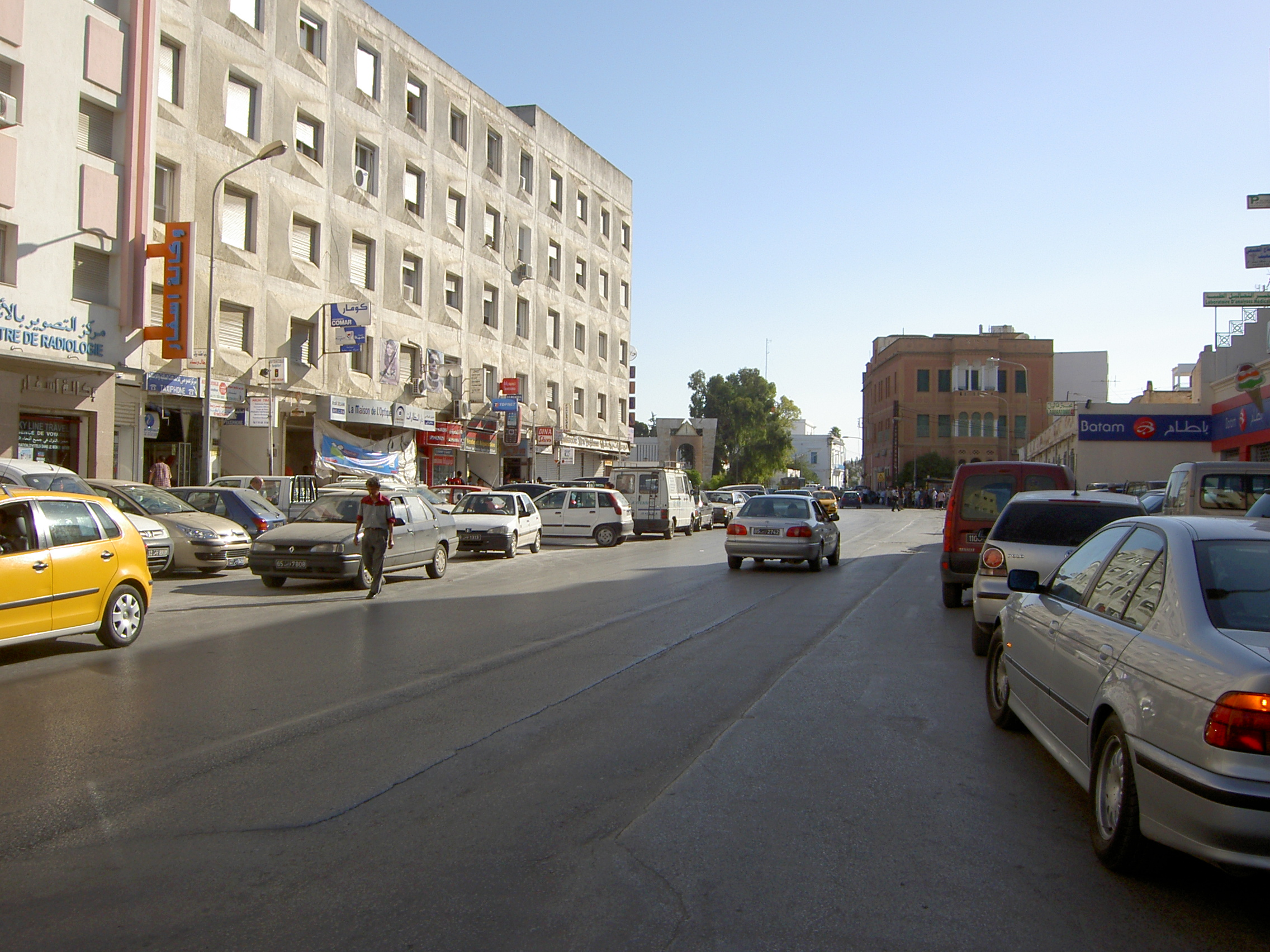 Ariana, Tunisia